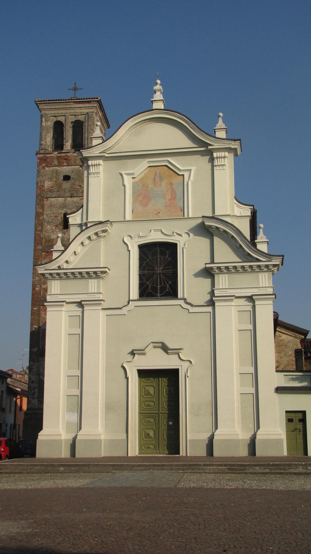 Church of Saints Faustino and Giovita in Castelponzone